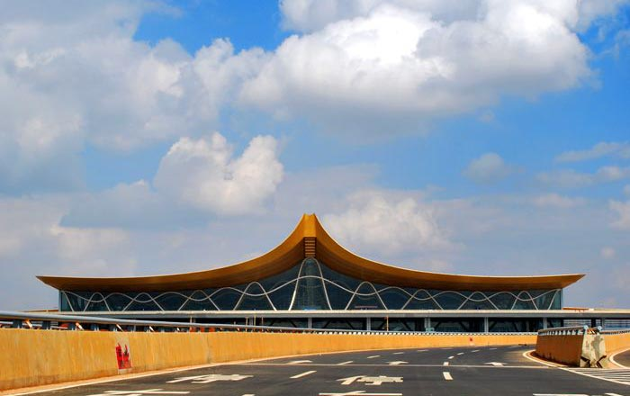 front view of Kunming Changshui Airport